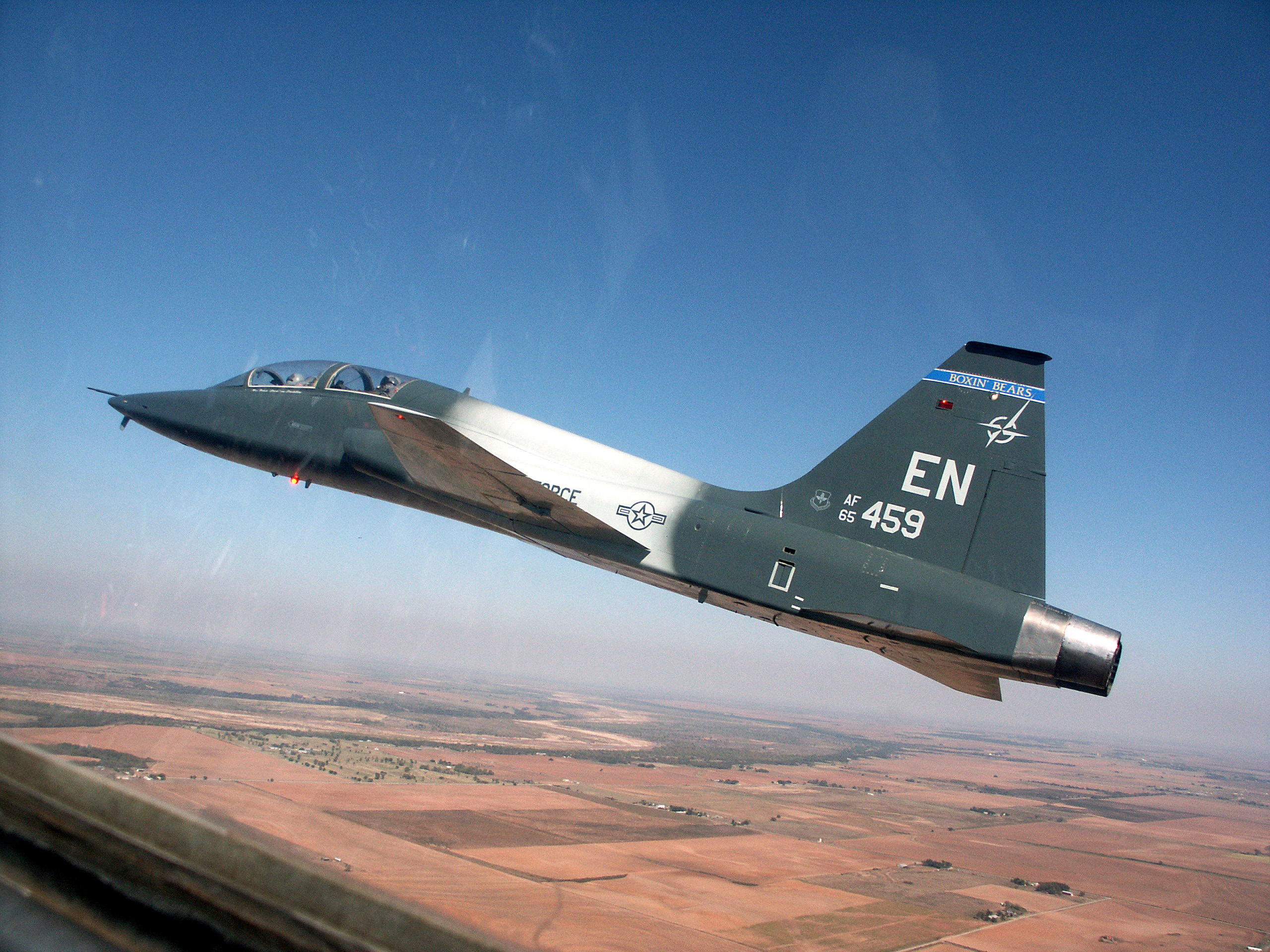 A U.S. Air Force Northrop T-38C Talon aircraft (s/n 65-10459) assigned to the 90th Flying Training Squadron "Boxin' Bears", 80th Flying Training Wing, Air Education and Training Command takes off from Sheppard Air Force Base, Texas (USA), to mark the 20th anniversary of the European North Atlantic Treaty Organization Joint Jet Pilot Training (ENJJPT) School on 20 October 2001.